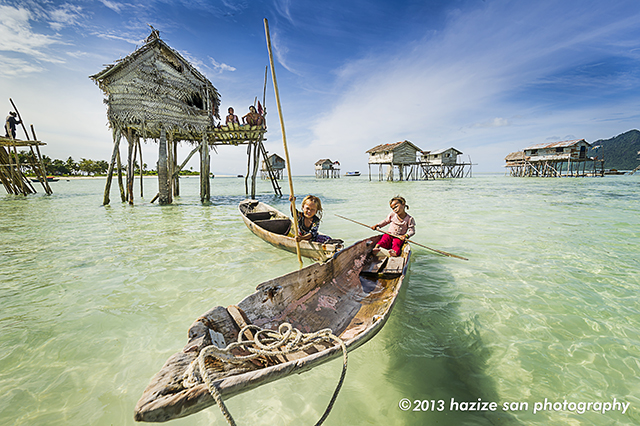 Sama Bajau children in Semporna, Sabah, Malaysia, in birau dugout canoes